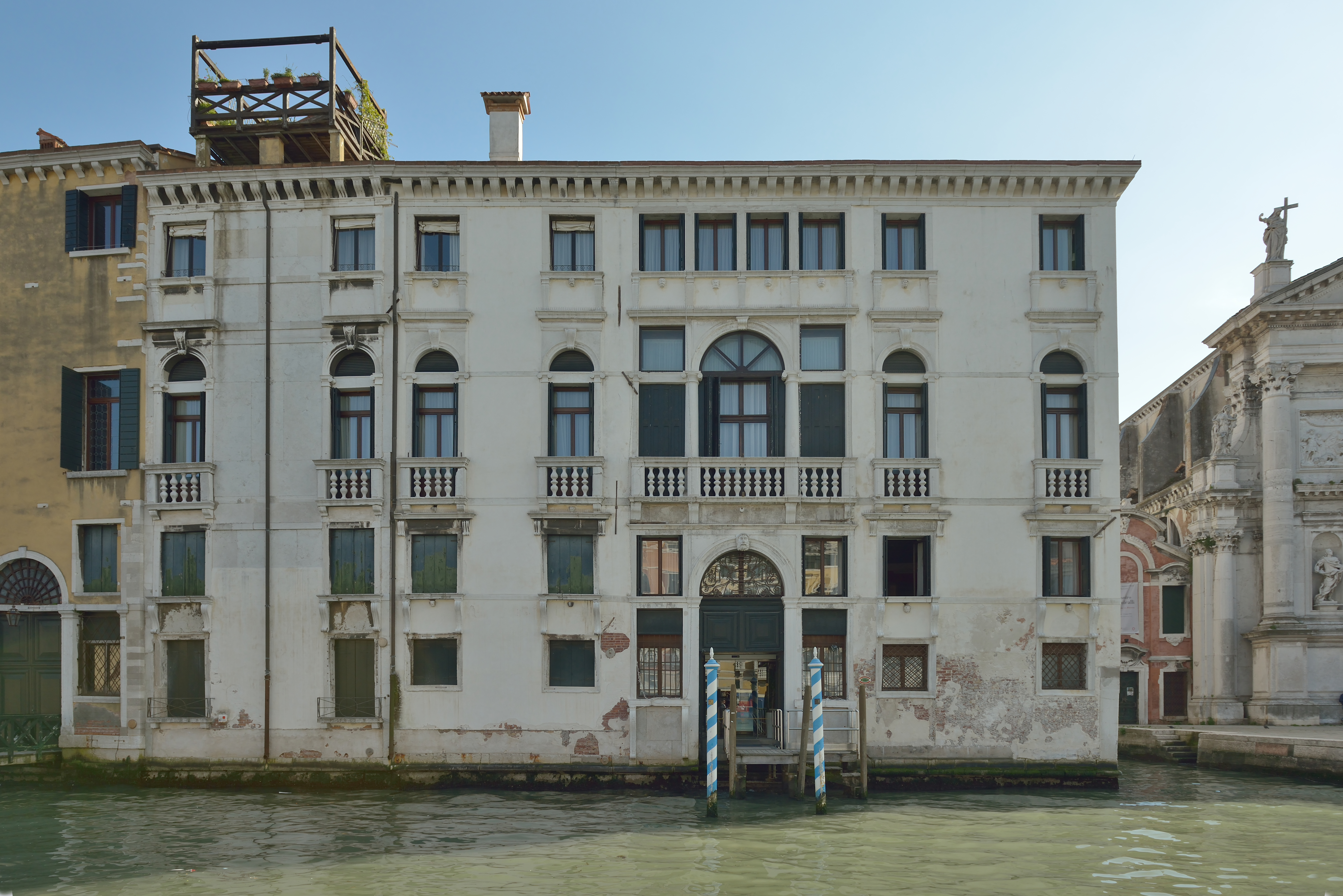 Palazzo Coccina Giunti Foscarini Giovannelli on the Canal Grande in Venice